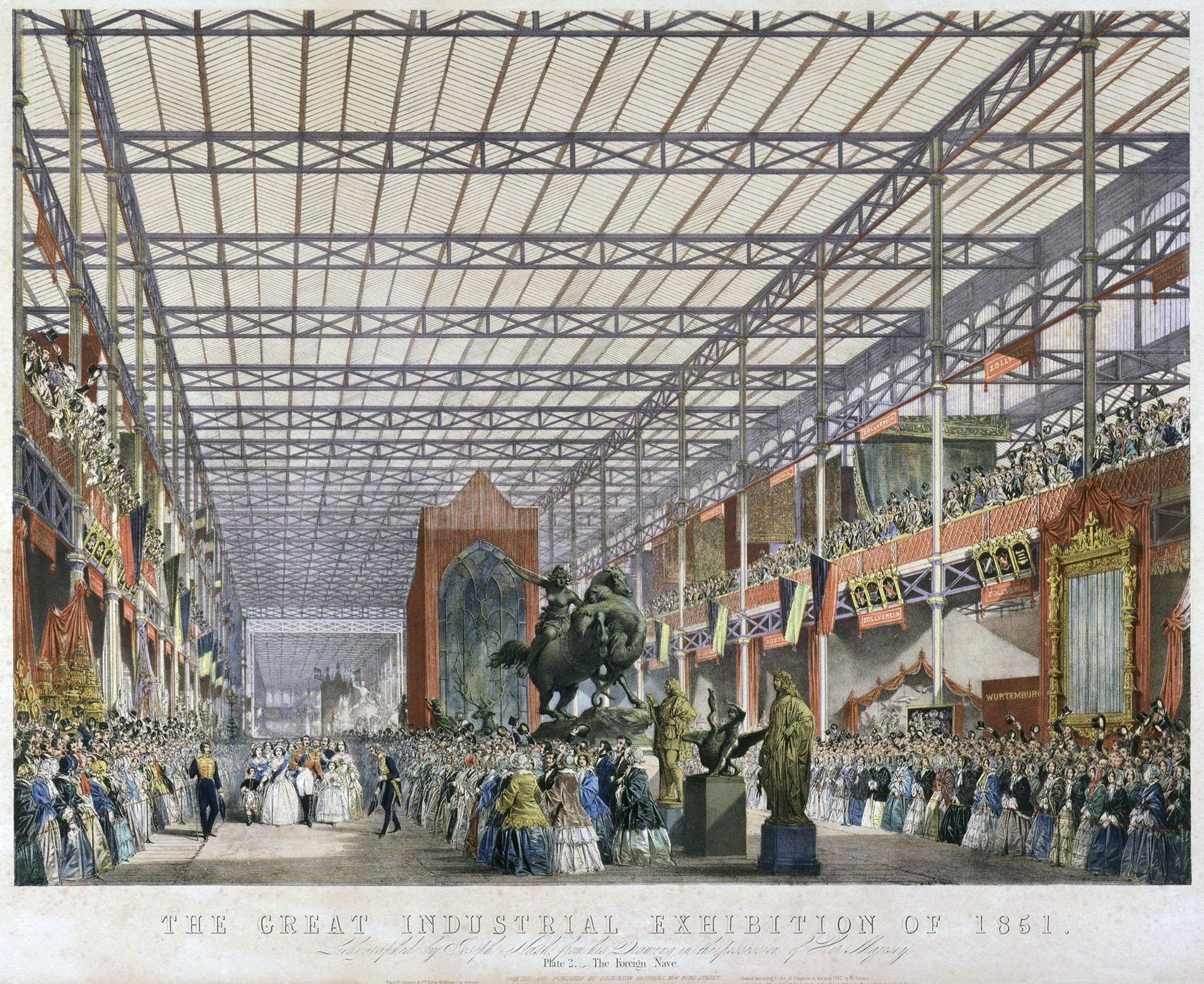 The Great Industrial Exhibition of 1851. Plate 2. The Foreign Nave, by Joseph Nash (died 1878), published 1851. All images in this batch have been confirmed as author died before 1939 according to the official death date listed by the NPG.